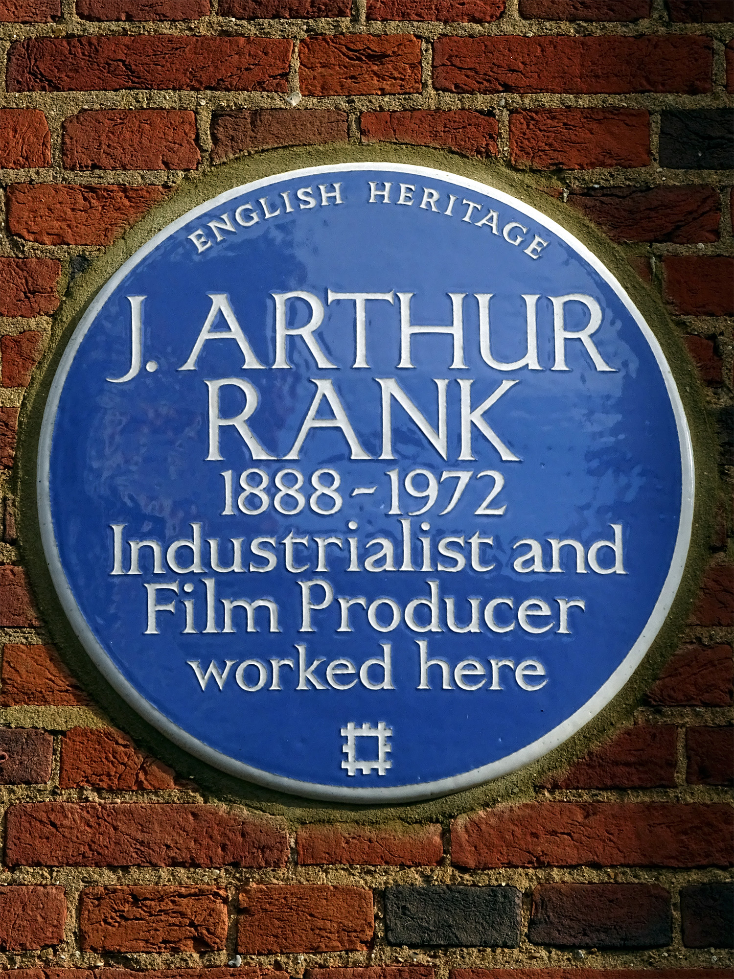 38 South Street, Mayfair, W1K 1DJ